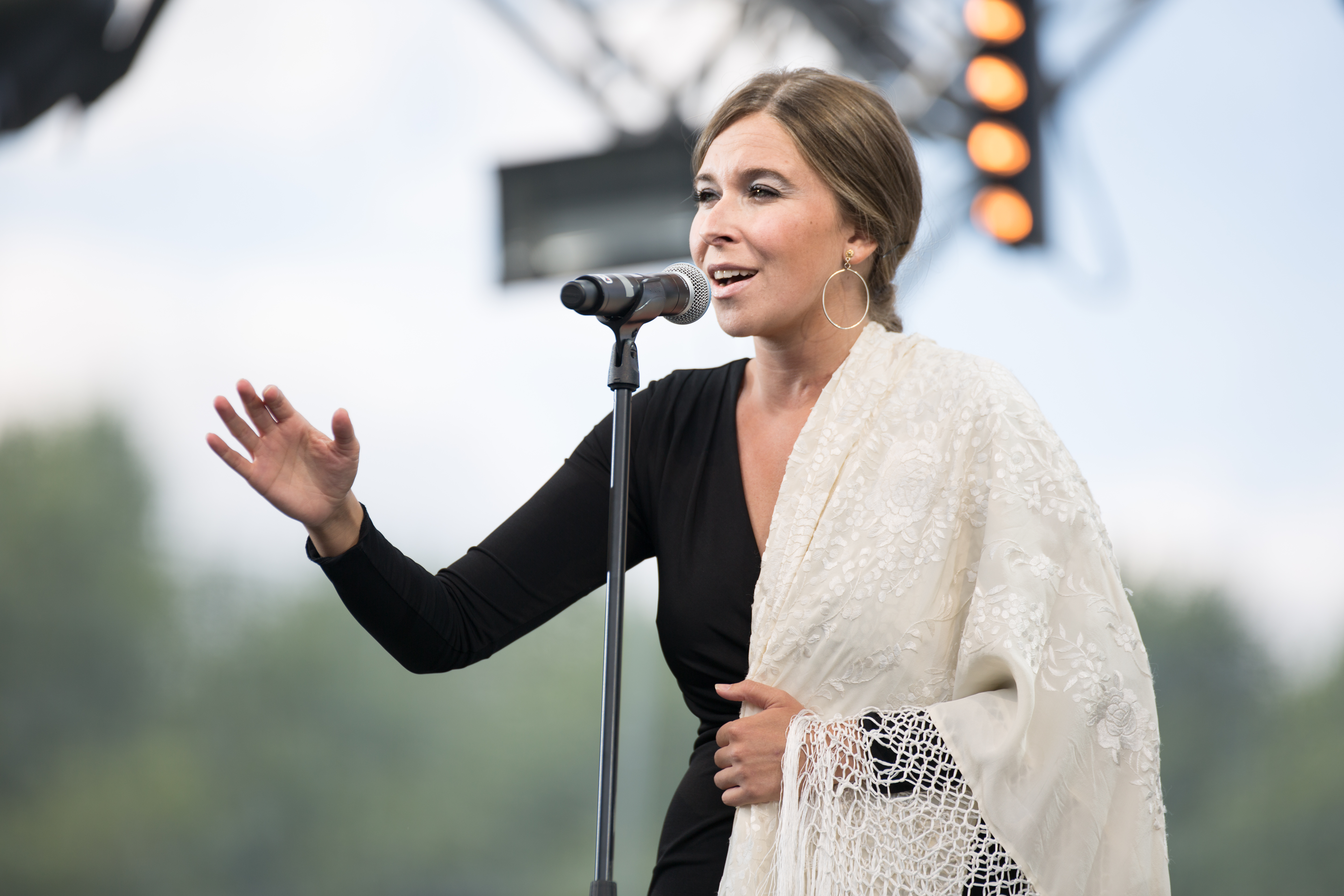 Rocio Marquez (Spain) at Rio Loco 2015